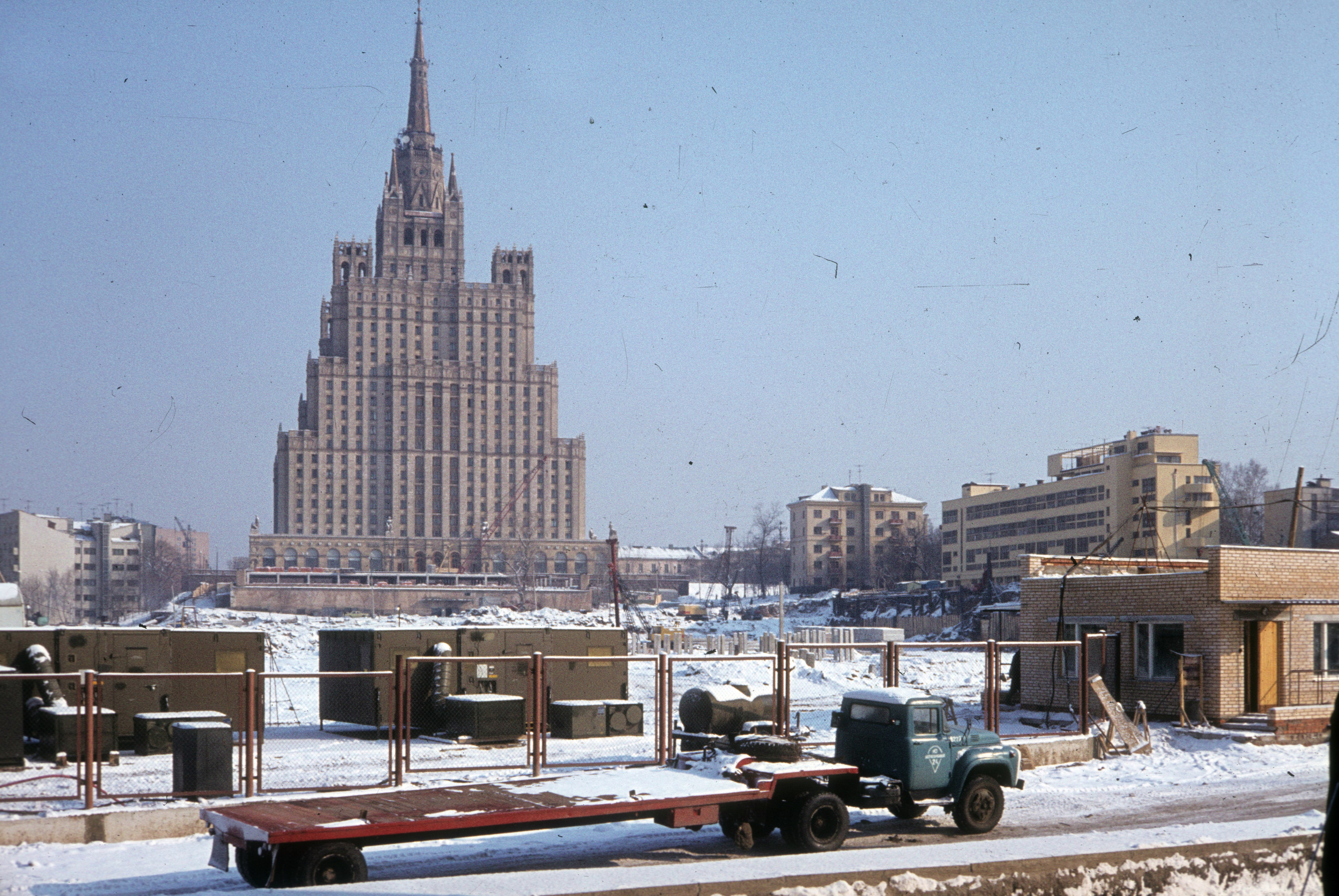 Construction in Presnensky District of Moscow. In 1969 this land was granted to the Embassy of the United States. By 1971 old buildings were razed, but construction itself began only in 1979. Location: Russia, Moscow Tags: colorful Title: a Kudrinszkaja téri toronyépület.